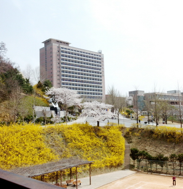 bukak kmu